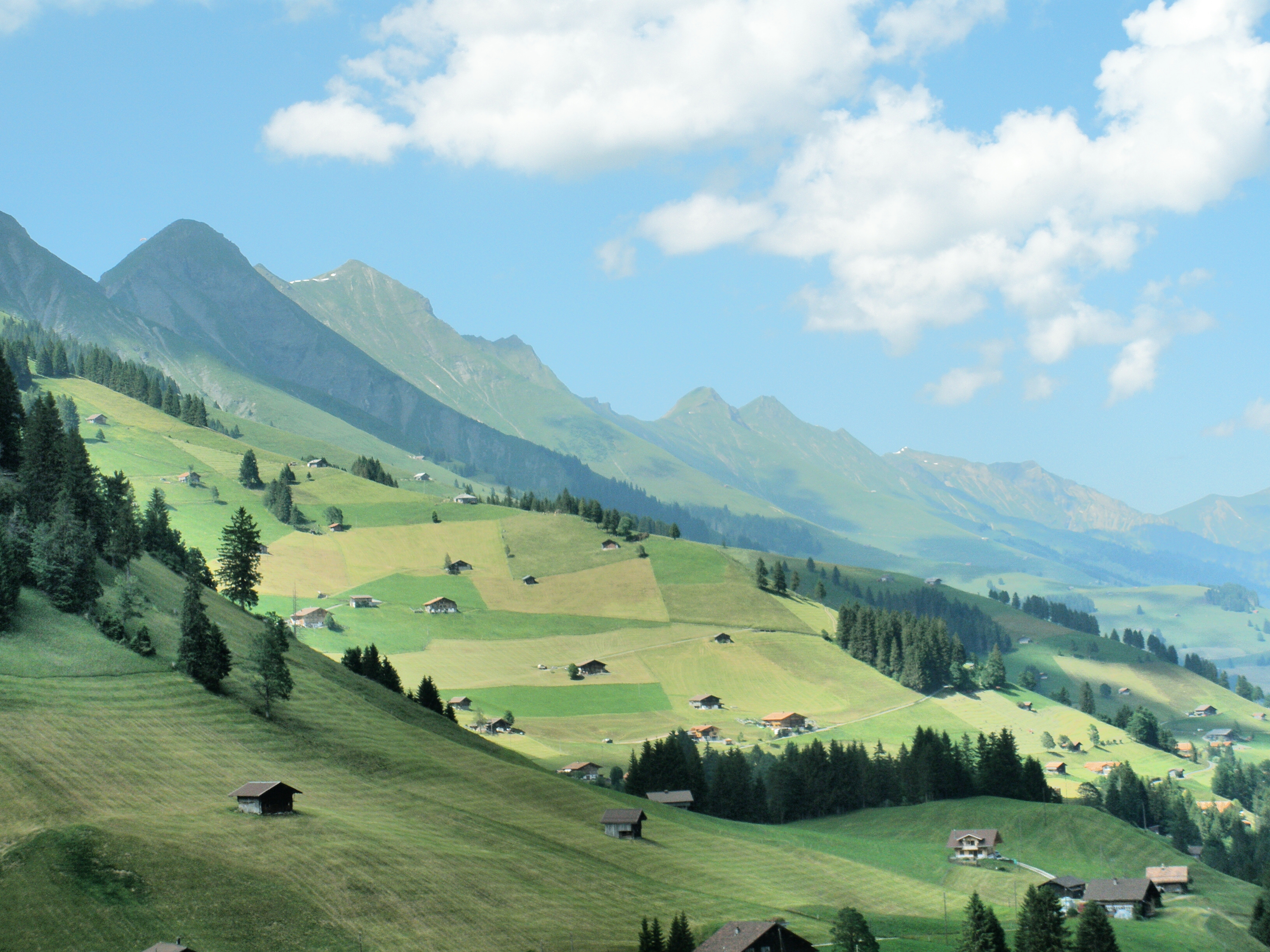 Niesenkette, western slope of Engstligen valley